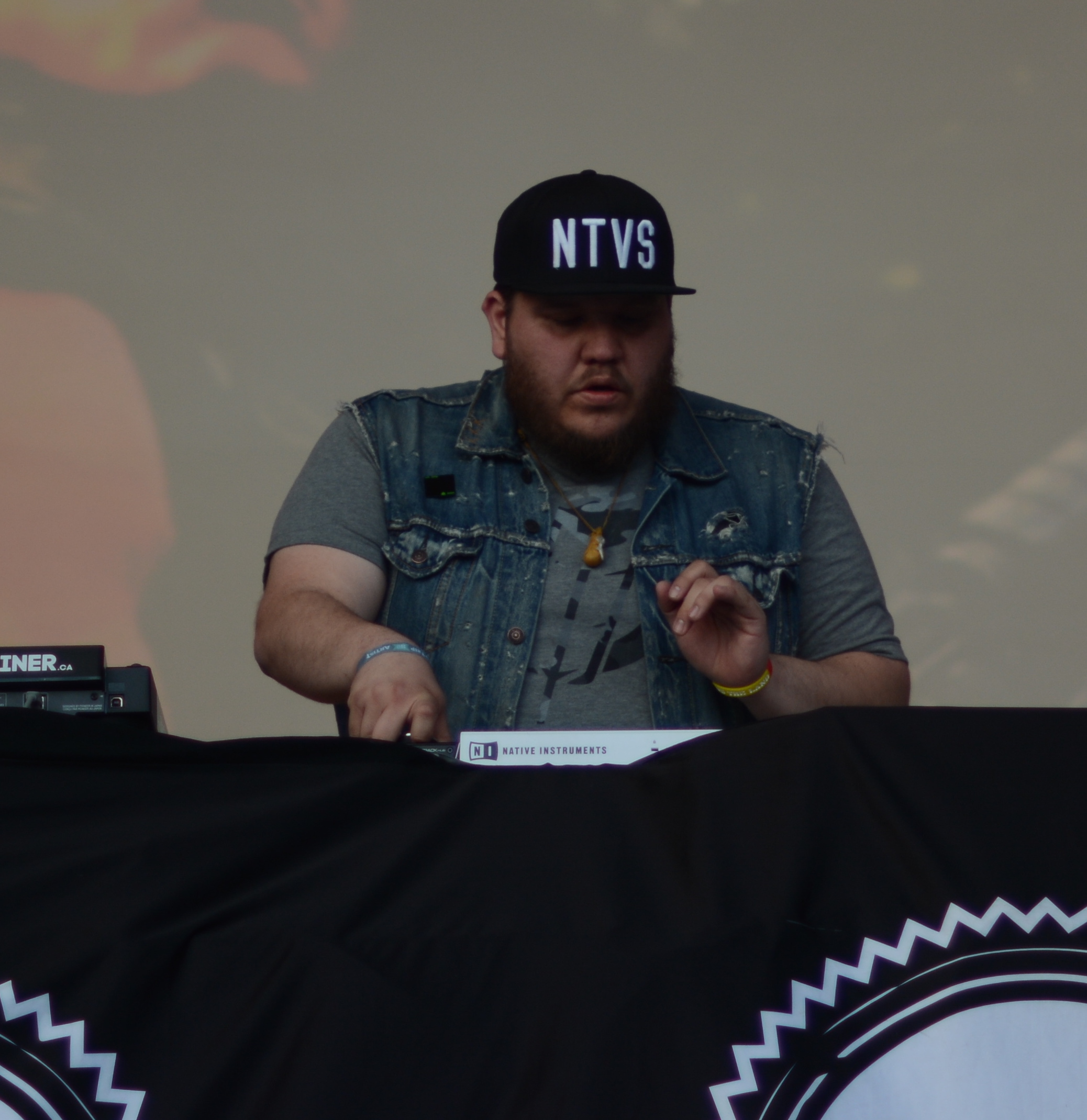 Tim "2oolman" Hill Performing with A Tribe Called Red